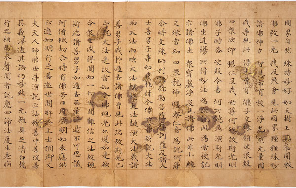 Preface to the Lotus Sutra (法華経序品, hokekyō johon) or (Chikubushima Sutra, 竹生島経)